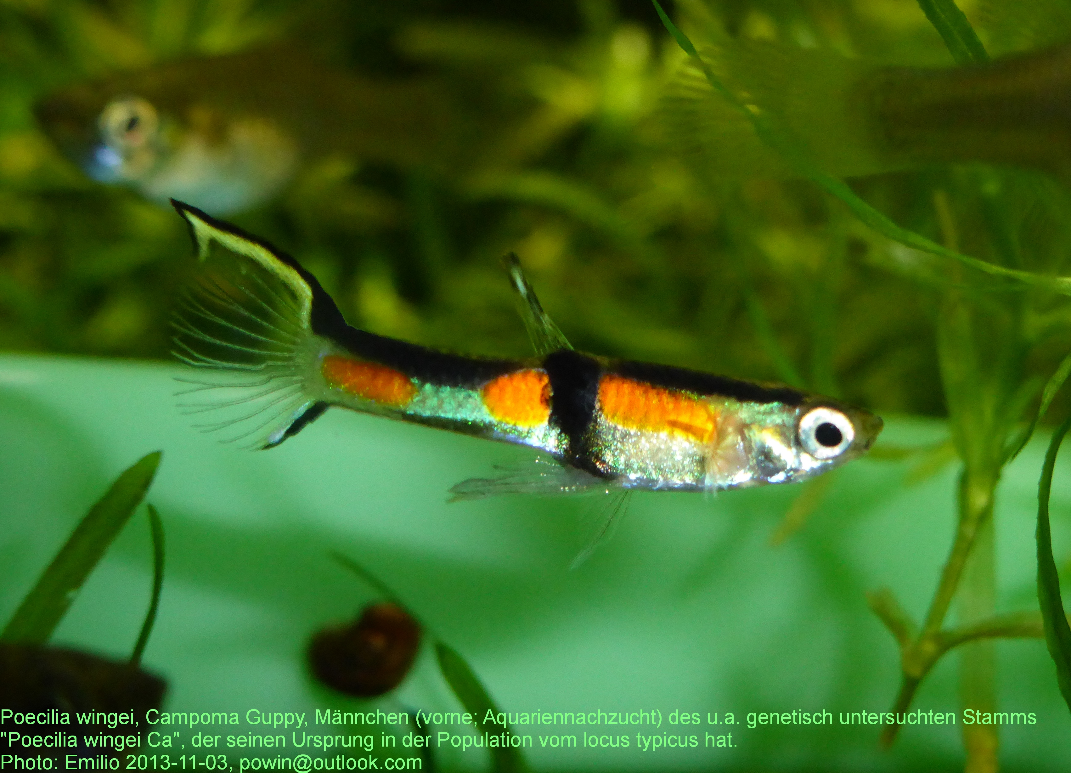 Poecilia wingei, Campoma guppy, male, population from locus typicus, Campoma, Venezuela. This fish is a descendant from the population which is called "P. wingei Ca" in Table1. Origins and sources of fishes in Susanne Schories, Manfred K. Meyer & Manfred Schartl, Description of Poecilia (Acanthophacelus) obscura n. sp., (Teleostei: Poeciliidae), a new guppy species from western Trinidad, with remarks on P. wingei and the status of the “Endler’s guppy”, Zootaxa 2266: 35–50 (2009) online: ). Photo taken on November 3rd, 2013. This strain is kept by me since beginning of 2010. Conditions: No selection by me. Temperature 25 degreews Celsius, water hardness approx. 14 degrees dH, pH 7, approx. 13 hours artificial light per day. Food: Tetra Guppy, freshly hatched Artemia nauplii, FD-Artemia.